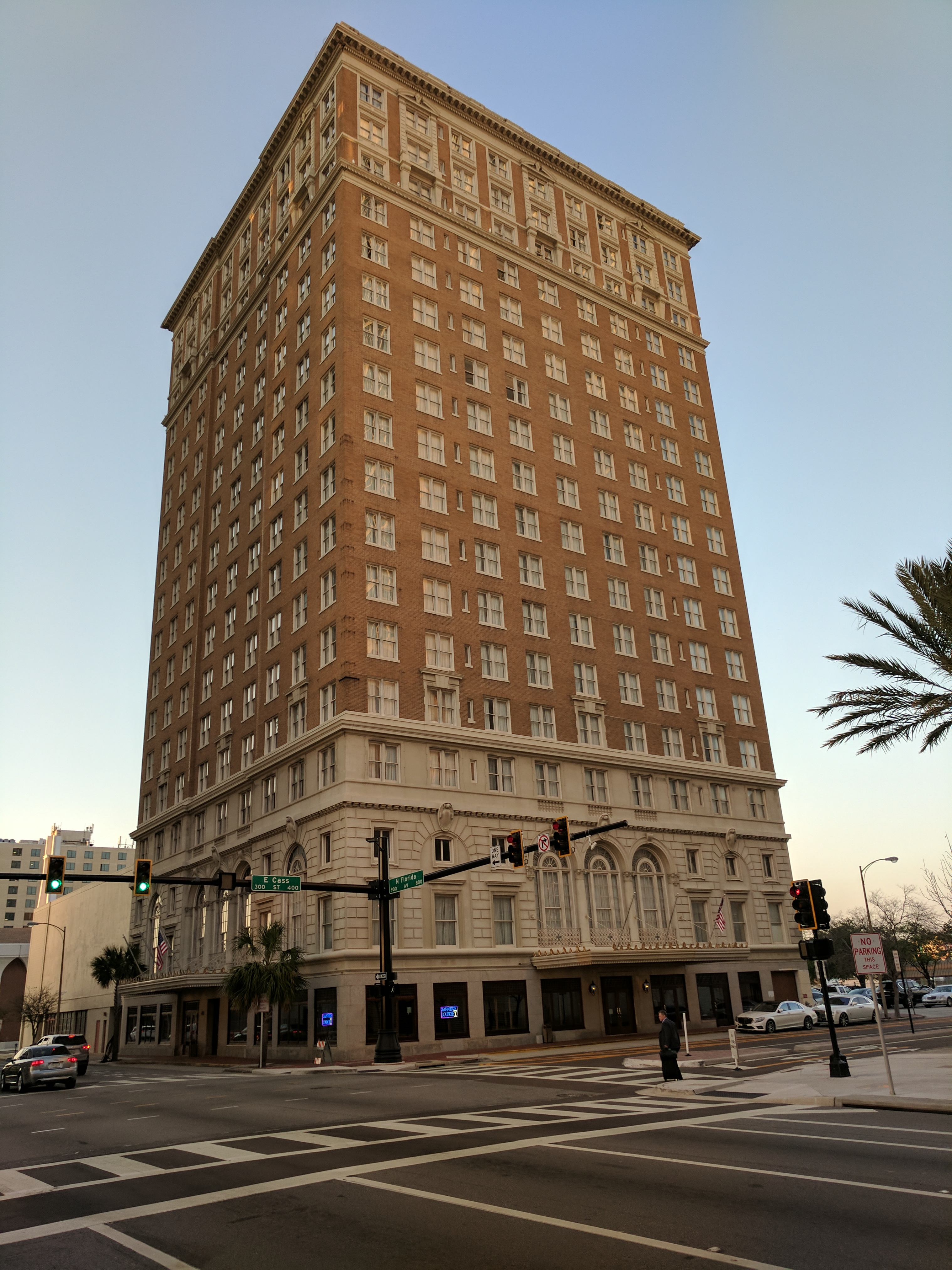 2017 view looking northeast toward the Floridan Palace Hotel